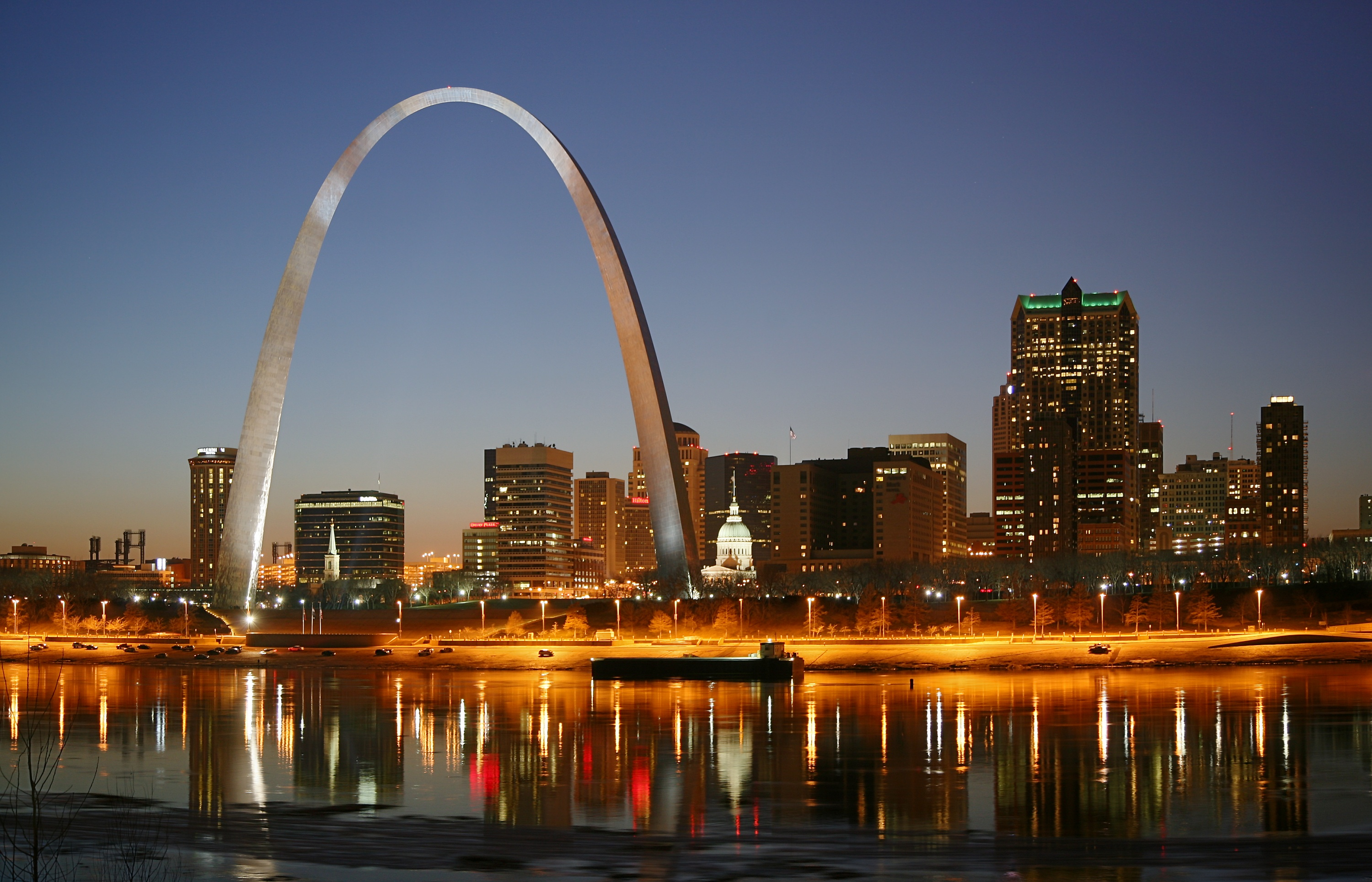 St. Louis on the Mississippi river by night. Jefferson National Expansion Memorial aka. Gateway Arch and Old Courthouse are visible.